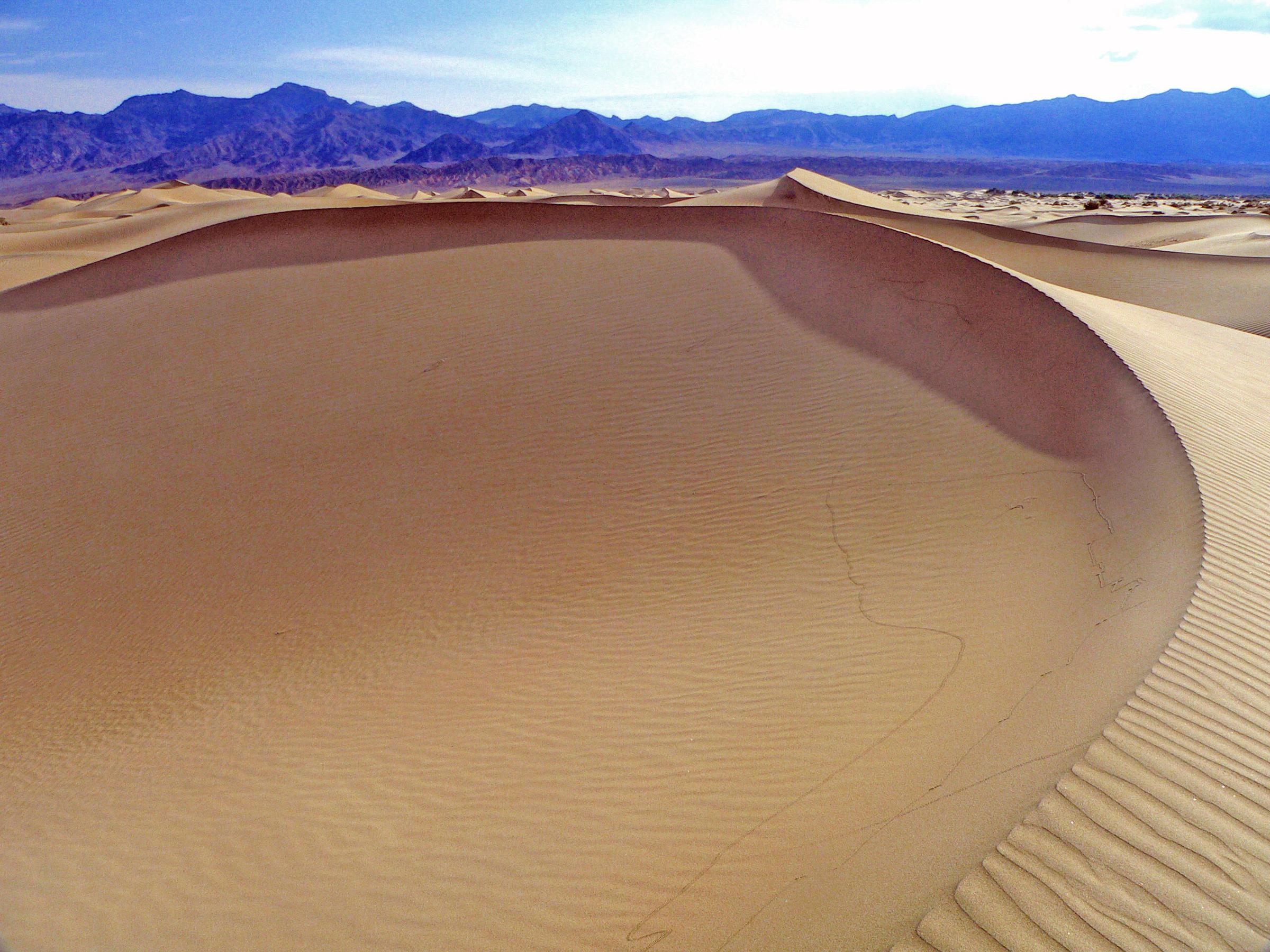 The Mesquite Sand Dunes are at the northern end of the valley floor and are nearly surrounded by mountains on all sides. Due to their easy access from the road and the overall proximity of Death Valley to Hollywood, these dunes have been used to film sand dune scenes for several movies including films in the Star Wars series. The largest dune is called Star Dune and is relatively stable and stationary because it is at a point where the various winds that shape the dunes converge. The depth of the sand at its crest is 130-140 feet (40-43 m) but this is small compared to other dunes in the area that have sand depths of up to 600-700 feet (180-210 m) deep. Star Dune is shaped like a starfish. The primary source of the dune sands is probably the Cottonwood Mountains which lie to the north and northwest. The tiny grains of quartz and feldspar that form the sinuous sculptures that make up this dune field began as much larger pieces of solid rock. In between many of the dunes are stands of creosote bush and some mesquite on the sand and on dried mud, which used to cover this part of the valley before the dunes intruded (mesquite was the dominant plant here before the sand dunes but creosote does much better in the sand dune conditions).